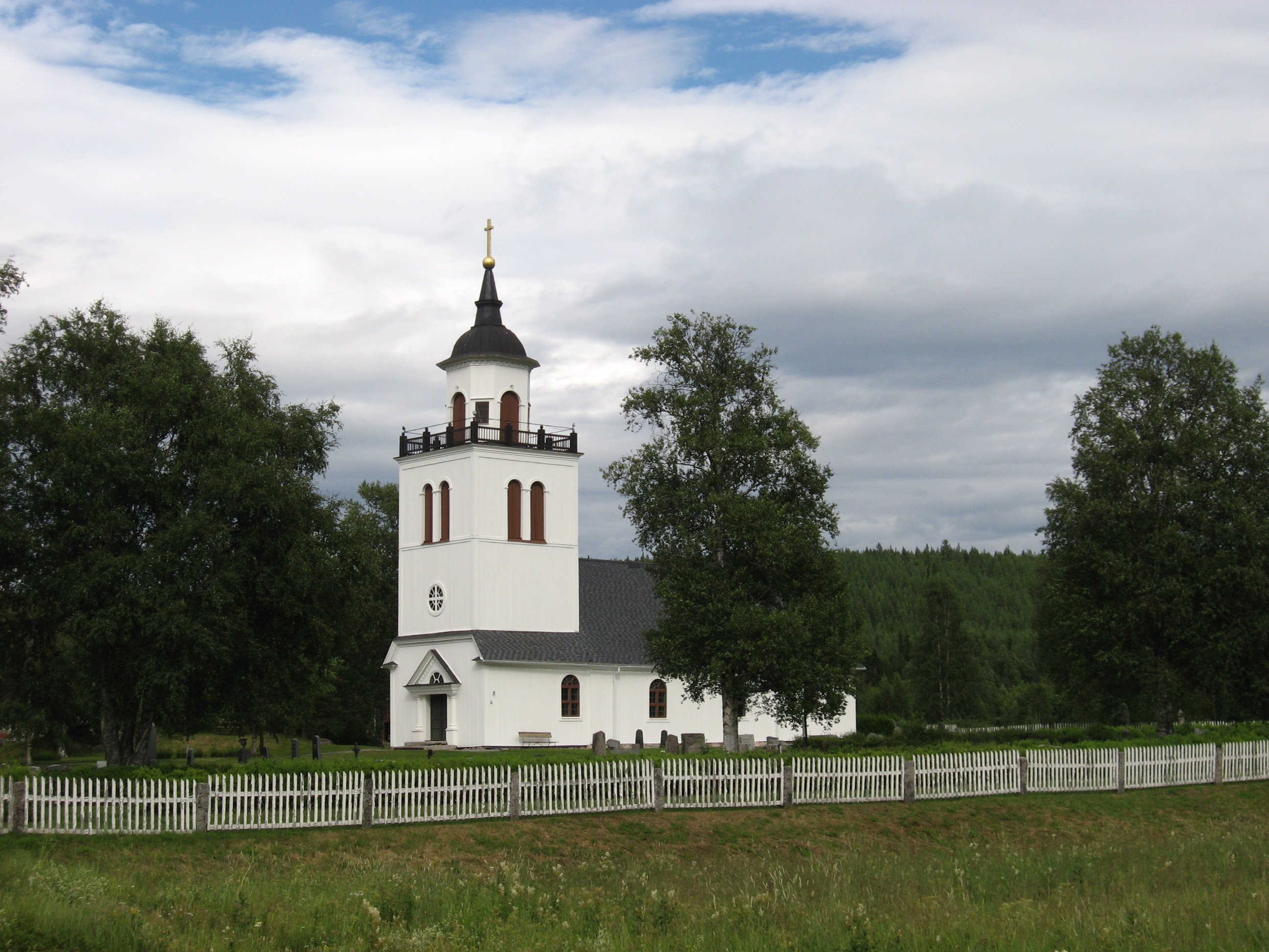 Överhogdals church built 1740 AC. The church is known as the provenance of the famous Överhogdalstapeten, a wallpaper from 1000-1100 AC